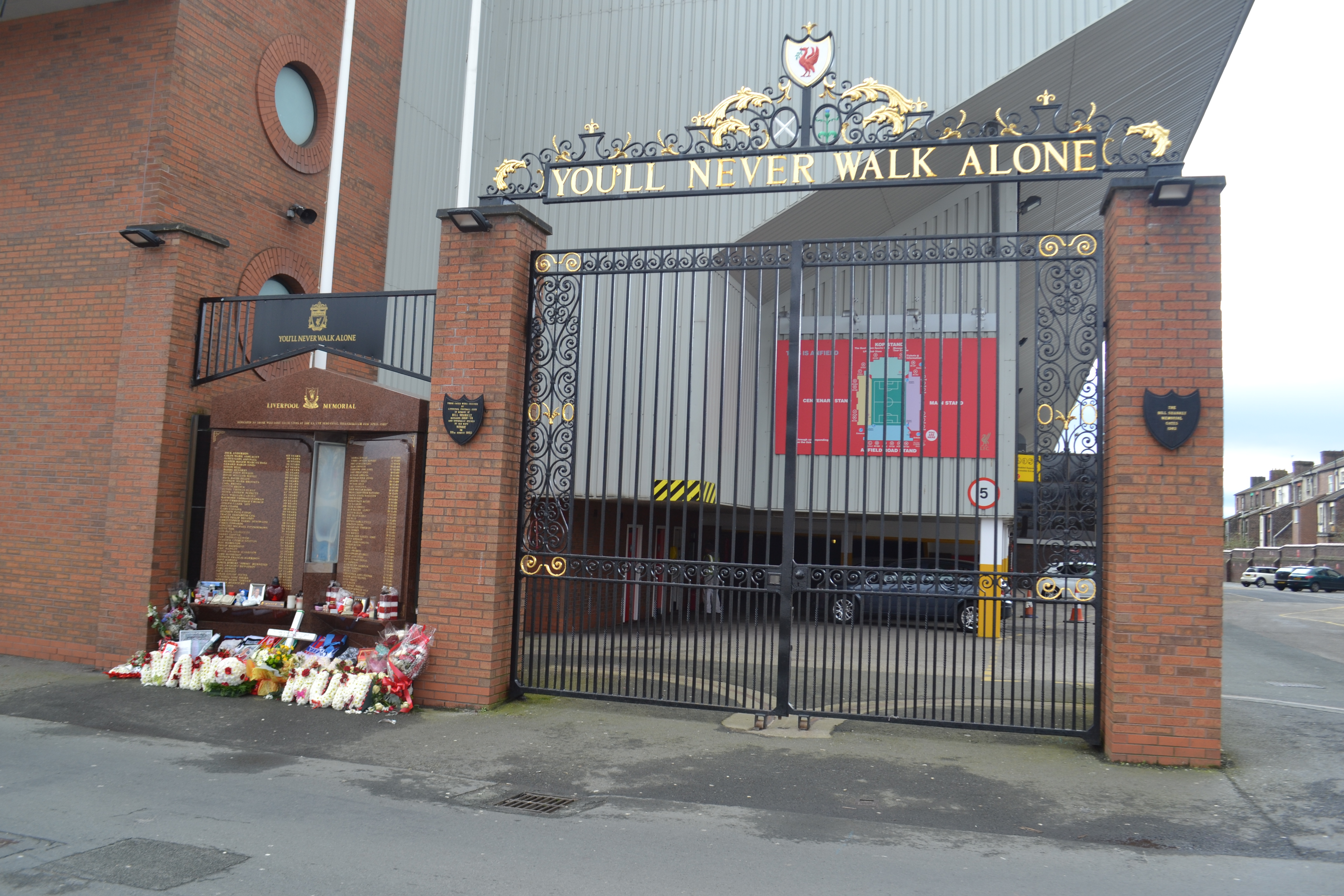 Hillsborough Memorial, Anfield